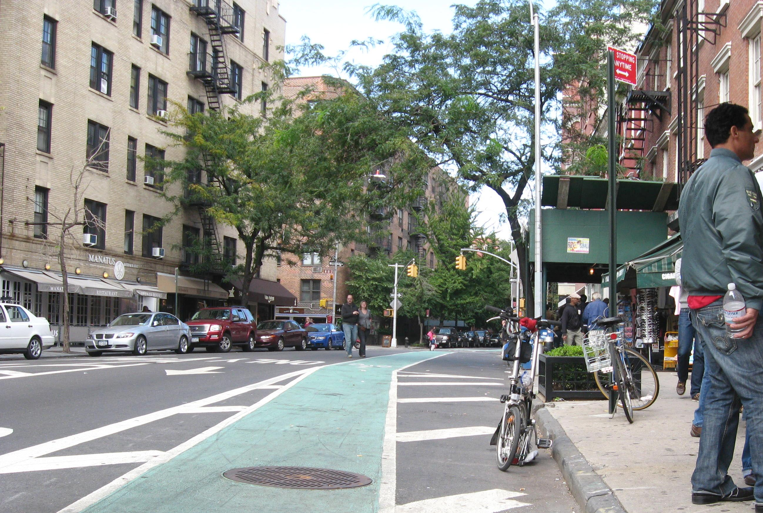 Looking north along Bleecker Street towards West 10th on a cloudy midday for WTM This photo is of Wikis Take Manhattan goal code R4, Bike Lane, green-painted.